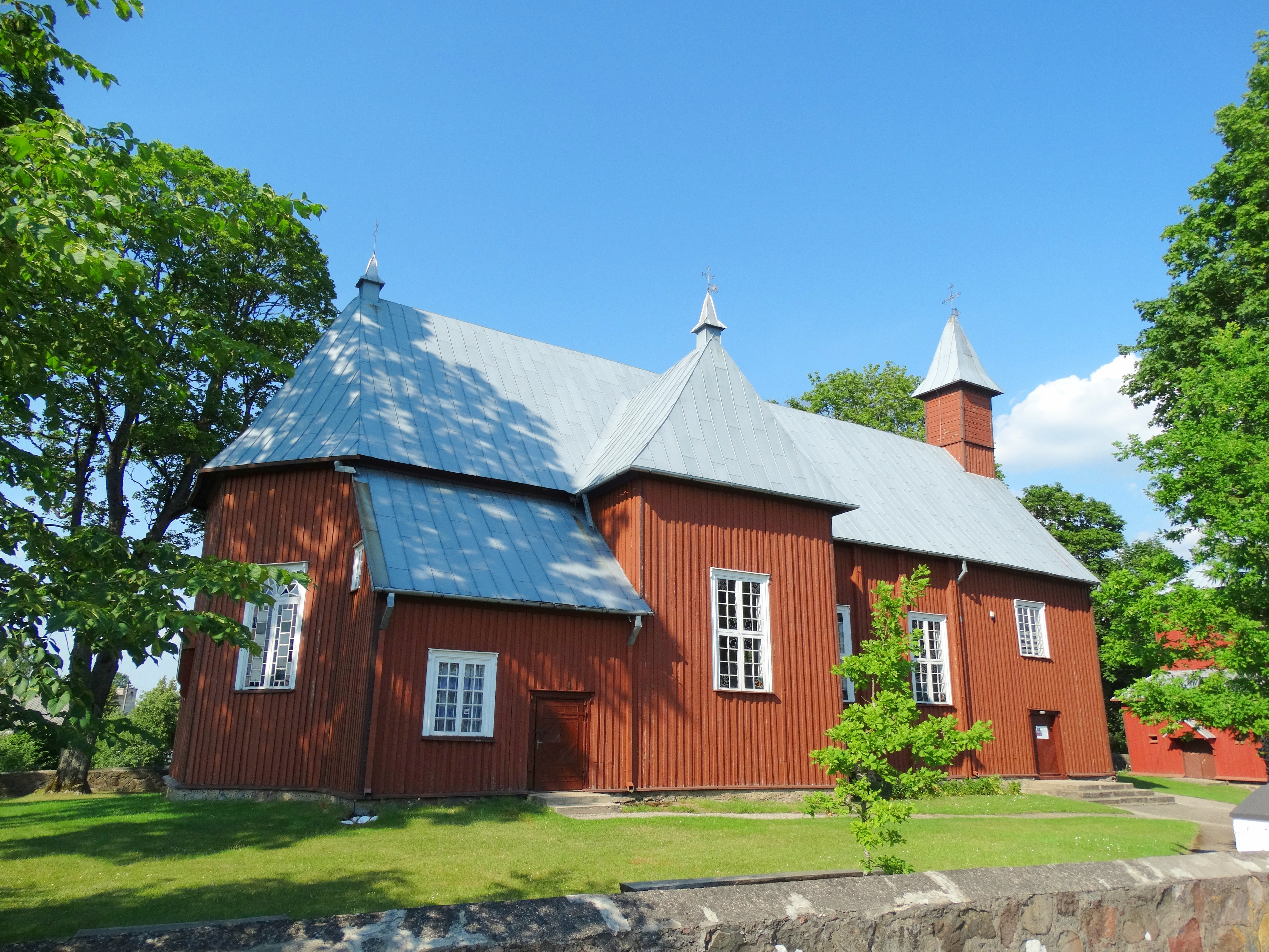 Roman Catholic Church, Nevarėnai, Telšiai district, Lithuania